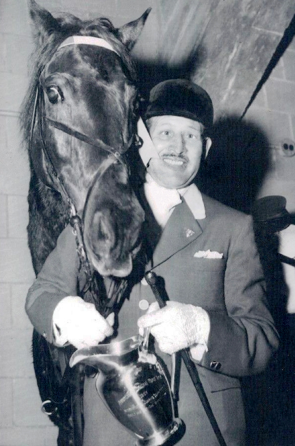 1957 Mexican Equestrian Team Julie Herrera and Horse Press Photo